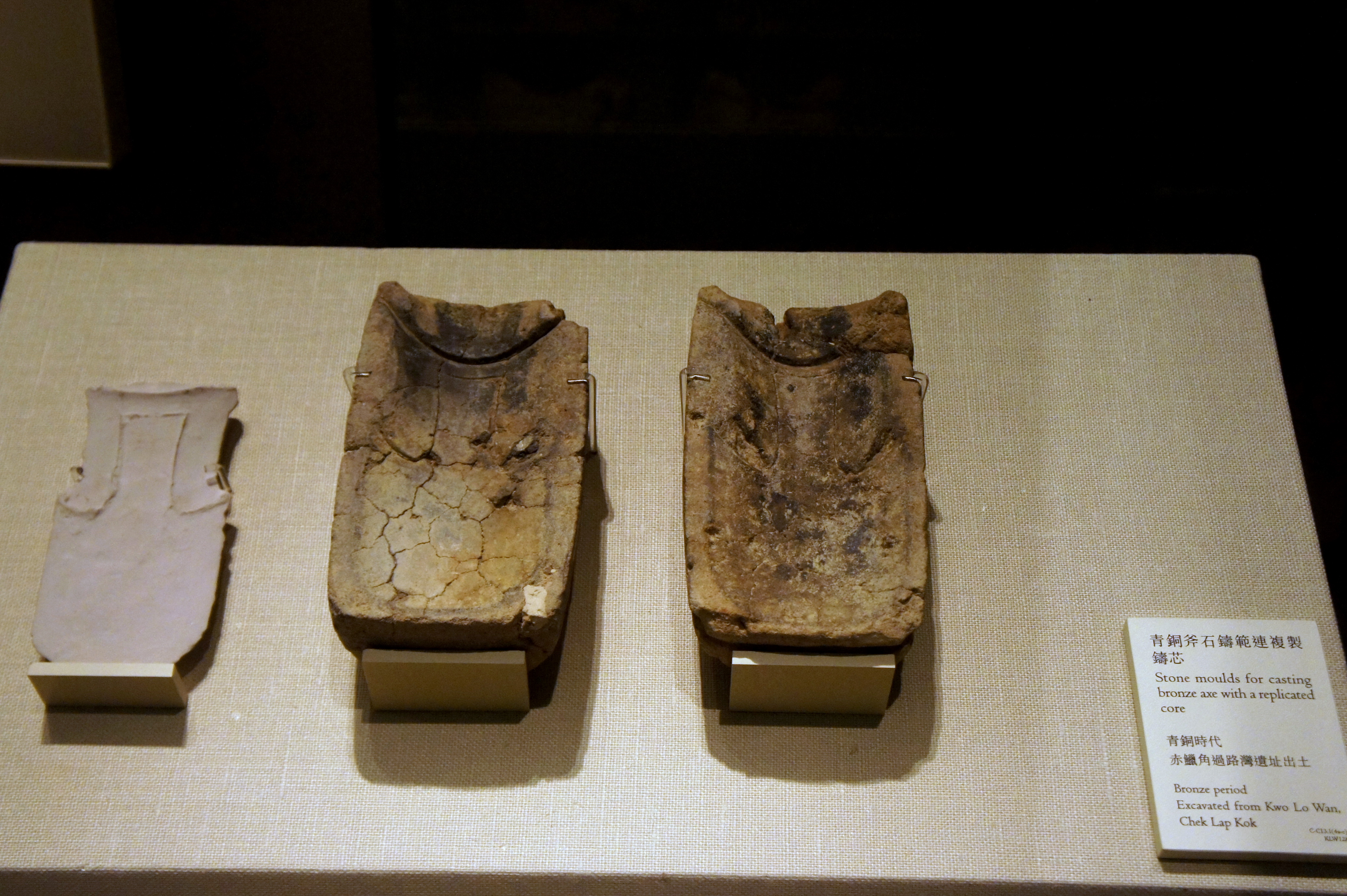 Stone moulds for casting bronze axe with a replicated core. Bronze period. Excavated from Kwo Lo Wan, Chek Lap Kok. An exhibit at the Hong Kong Museum of History.